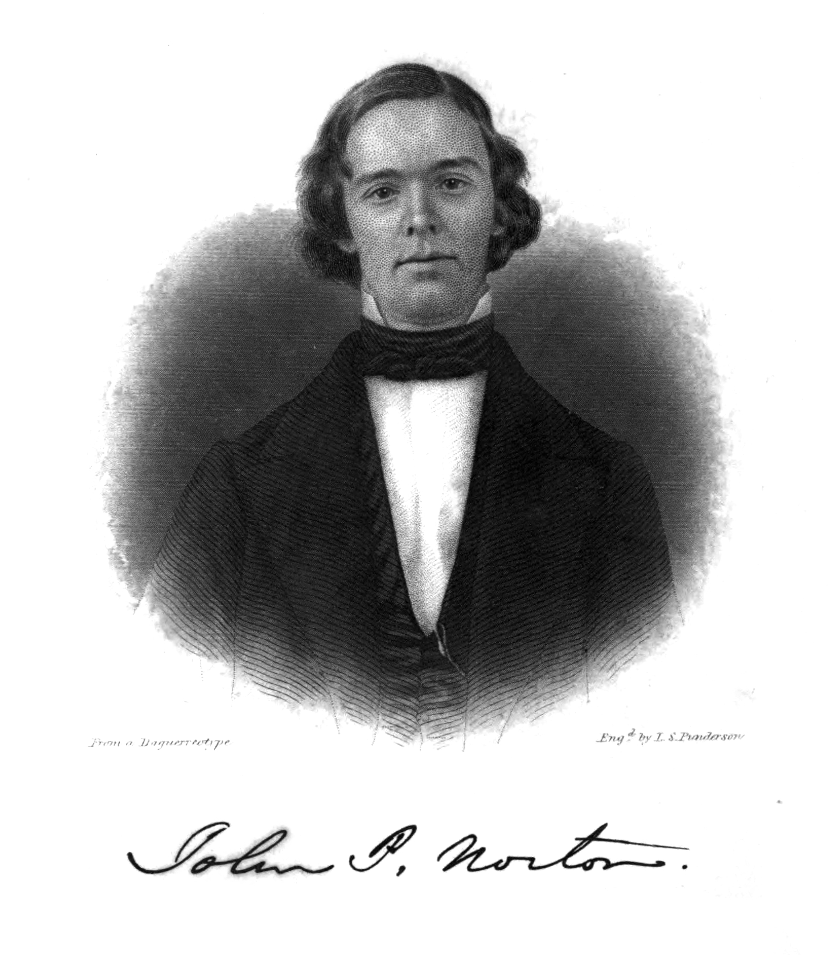 Picture of John Pitkin Norton